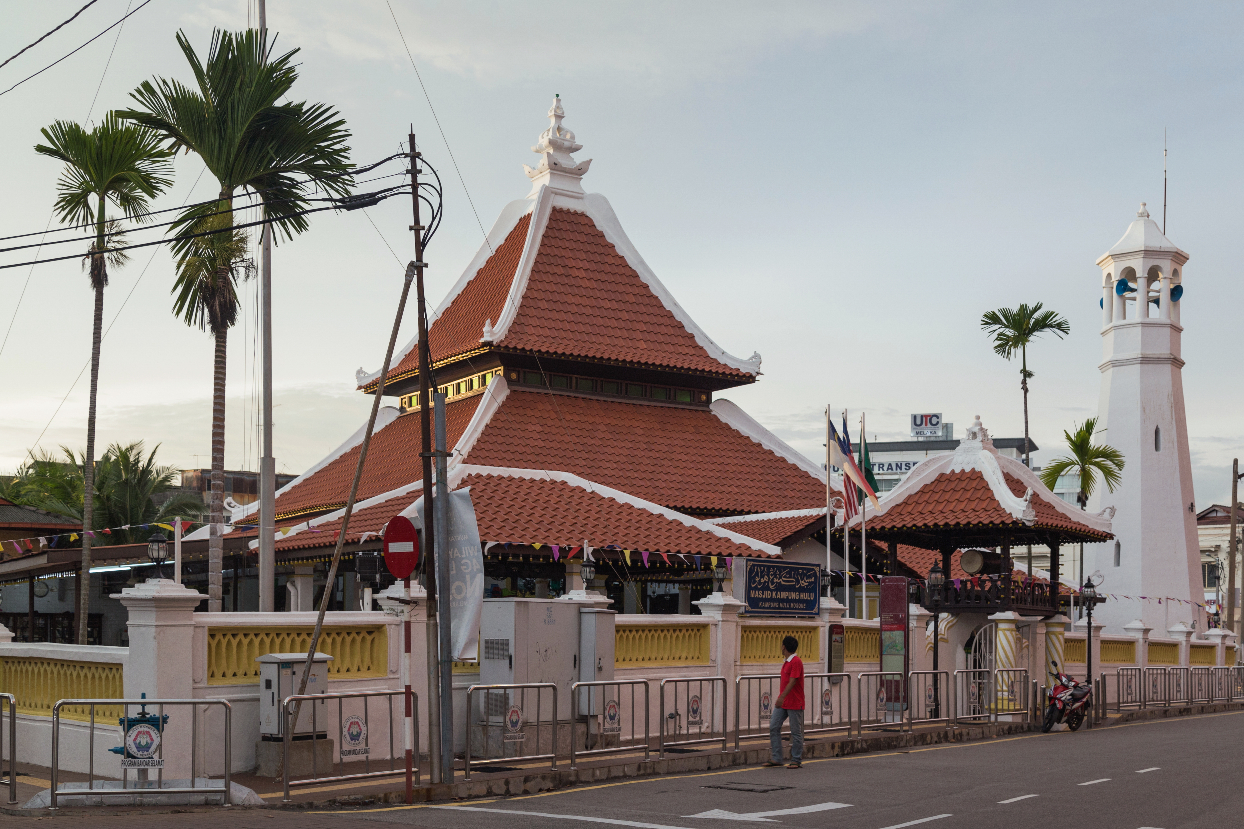 Kampung Hulu Mosque. Malacca City, Malacca, Malaysia.